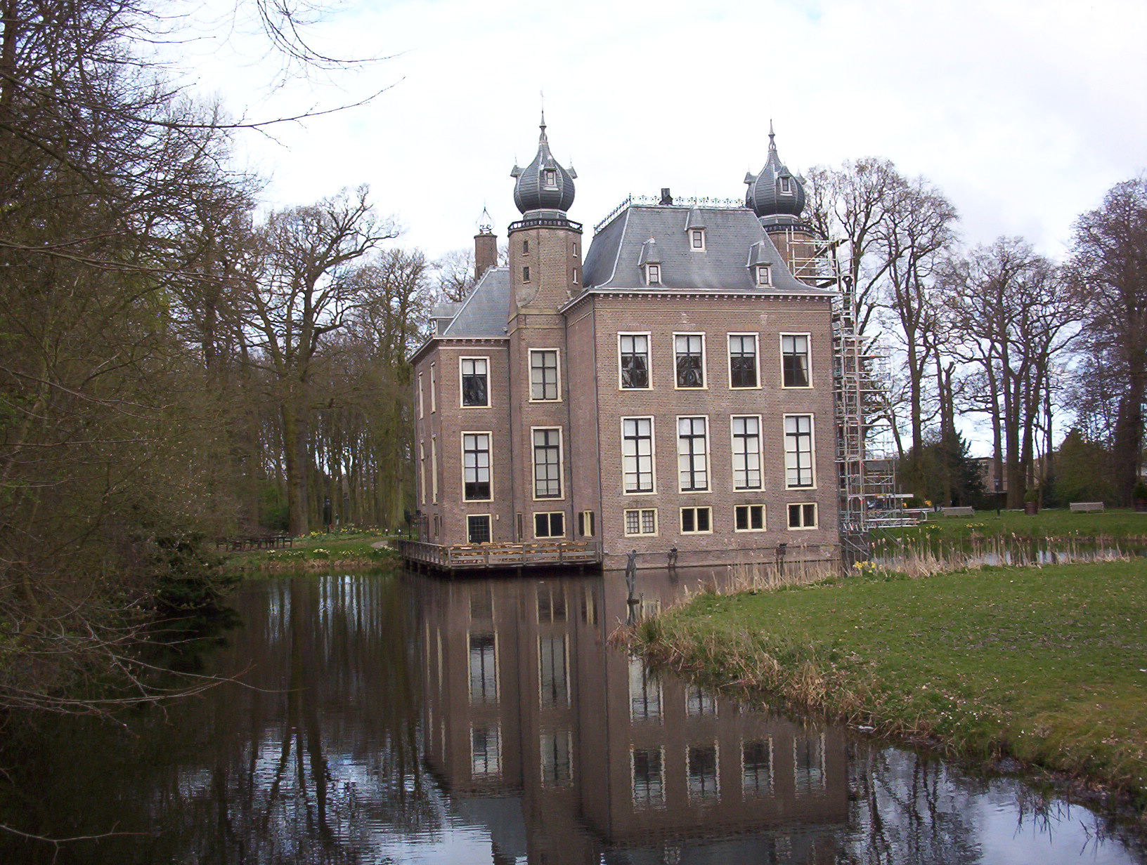 Picture of front of Oud Poelgeest Castle in Oegstgeest, facing the Haarlem-Leiden Canal. This was the home of Herman Boerhaave. The onion domes were added after his death in 1738. Photo date: April 2007